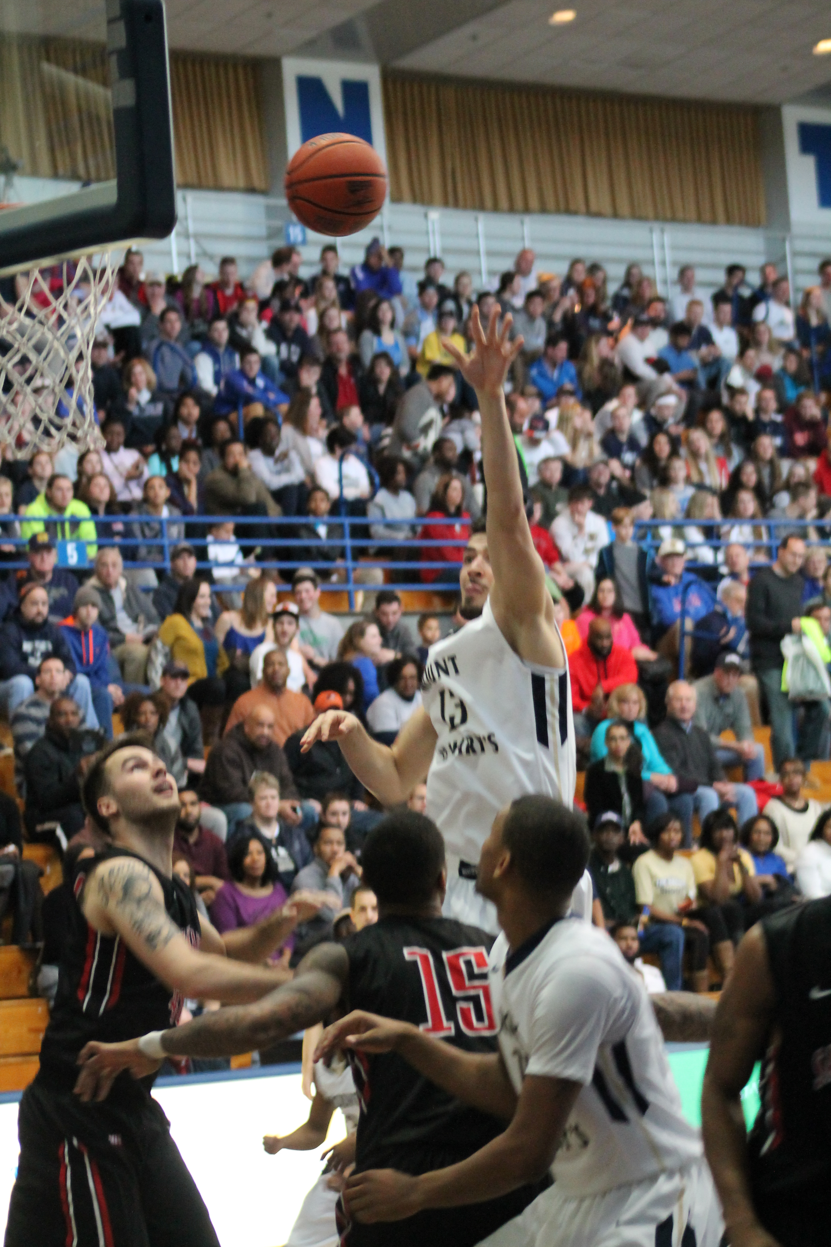 Kristijan Krajina of Mount St. Mary's shoots during an NCAA Division I men's basketball game against St. Francis (PA) at the Knott Arena in Emmitsburg, Maryland.